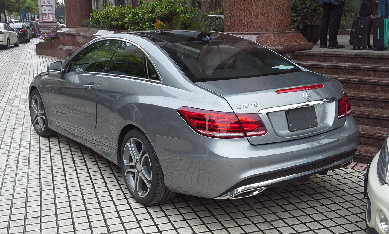 Mercedes-Benz E-Class C207 facelift photographed in Shanghai, China.